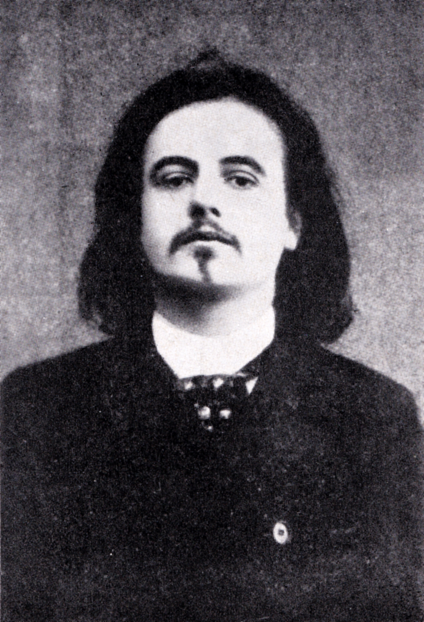 Portrait of Alfred Jarry in 1896